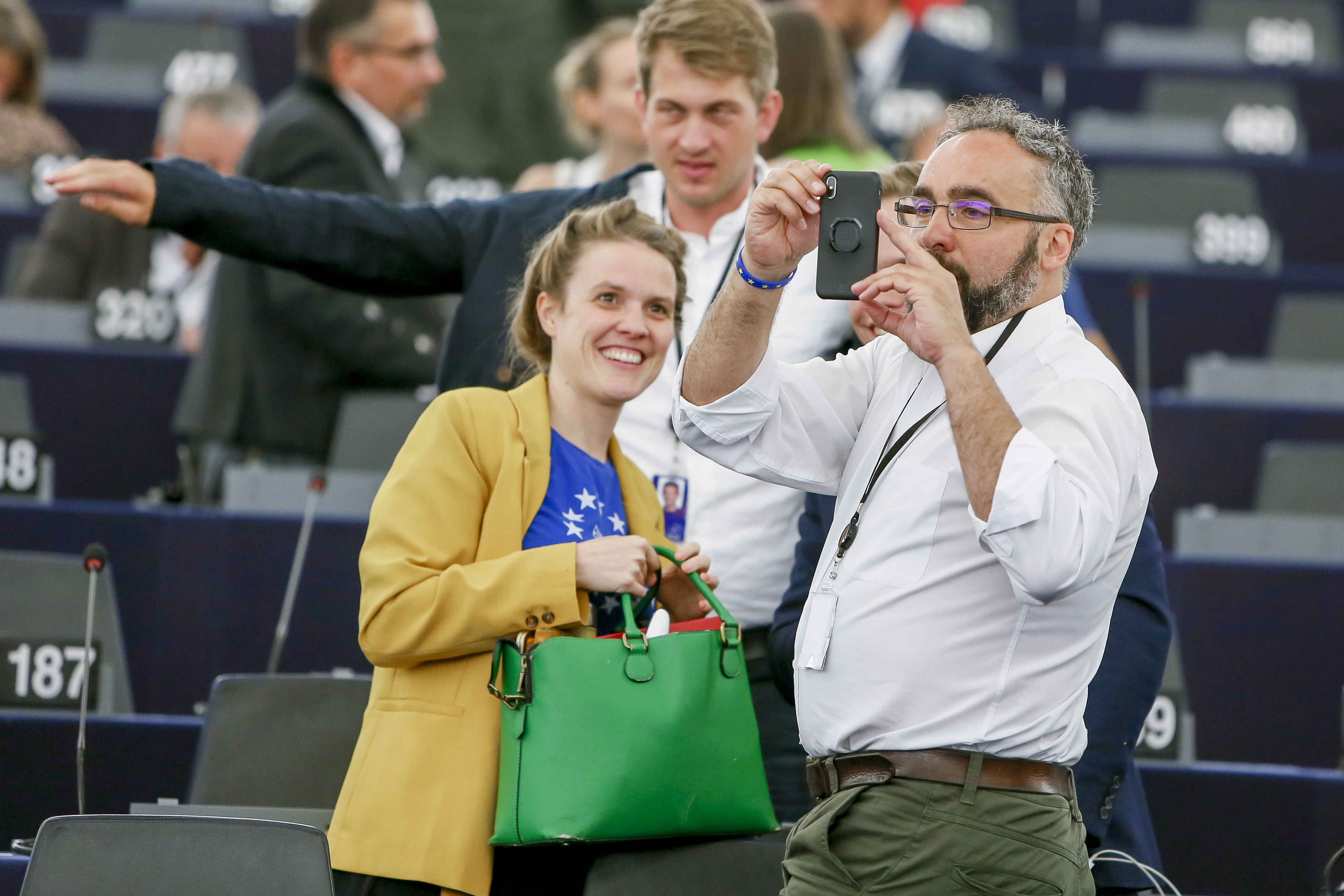 Terry Reintke and Scott Ainslie during the Constitution of the 9th legislature of the European Parliament